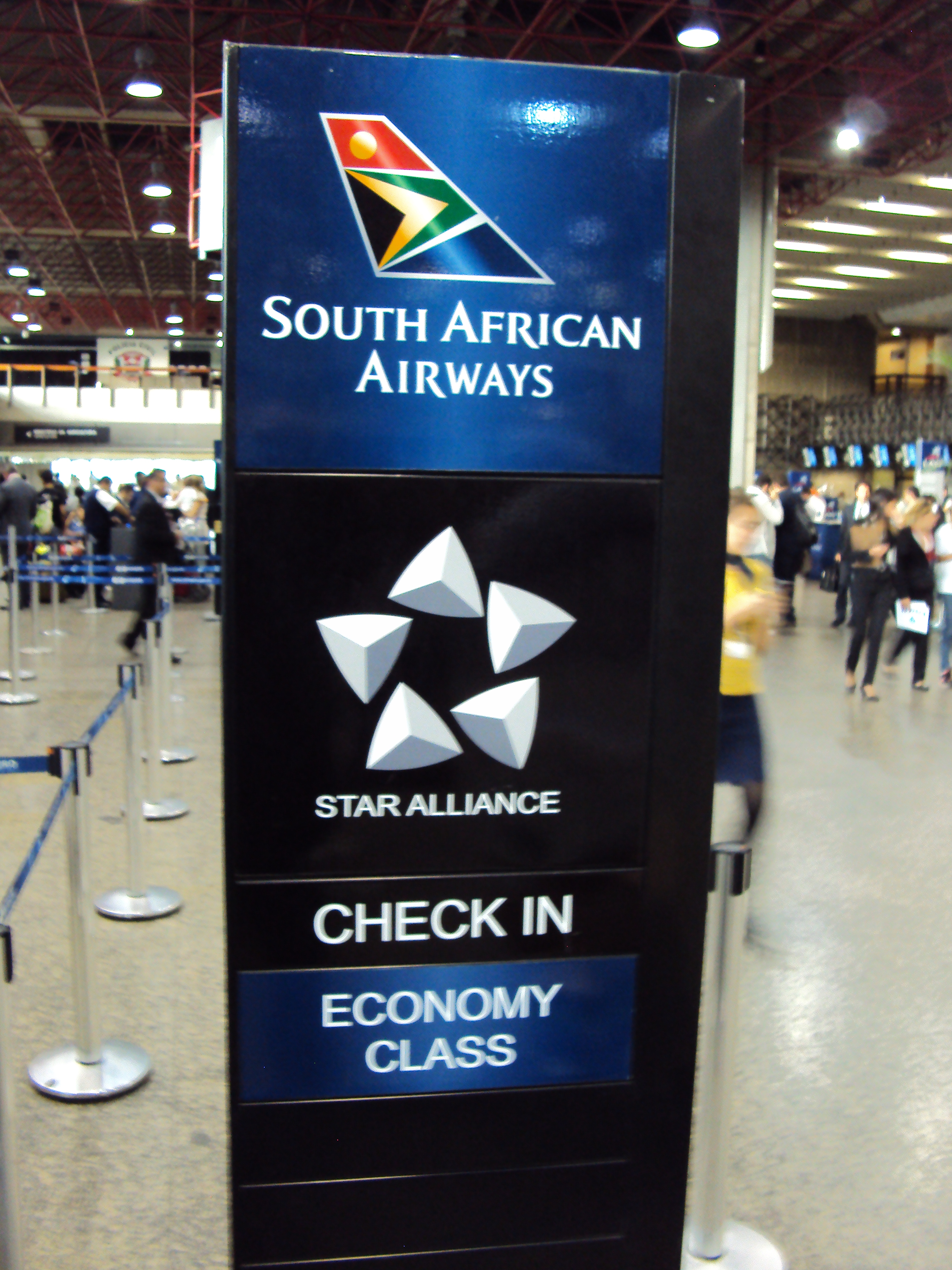 SAA Counter at Guarulhos International Airport in Sao Paulo, Brazil